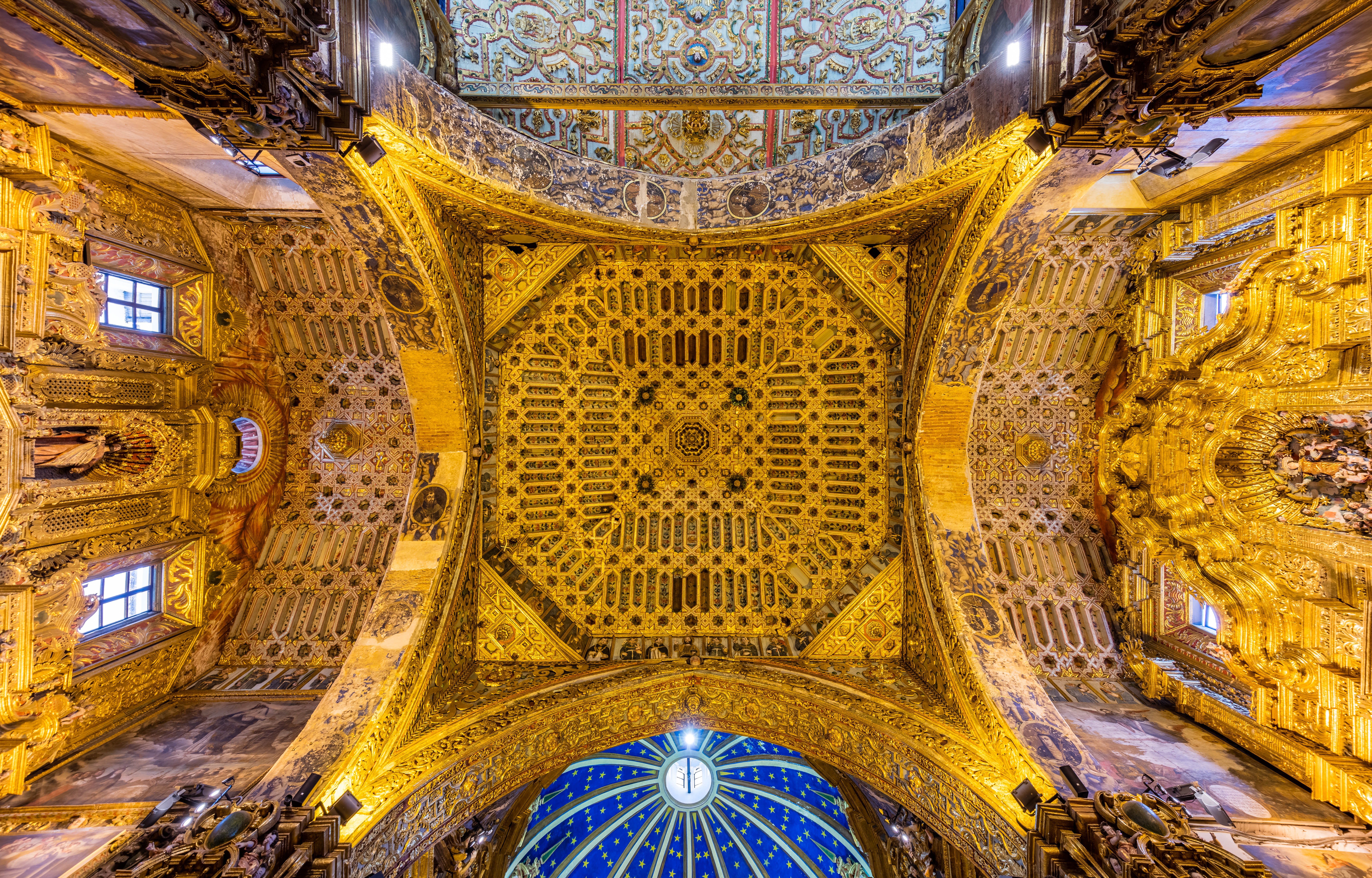 Interior view of the crossing of the church and Monastery of St. Francis, Quito, Ecuador. The Roman Catholic temple, finalized in the 17th century, is the largest architectural ensemble among the historical structures of colonial Latin America. The church exhibits a mixture of different architecture styles, as the construction took 150 years.